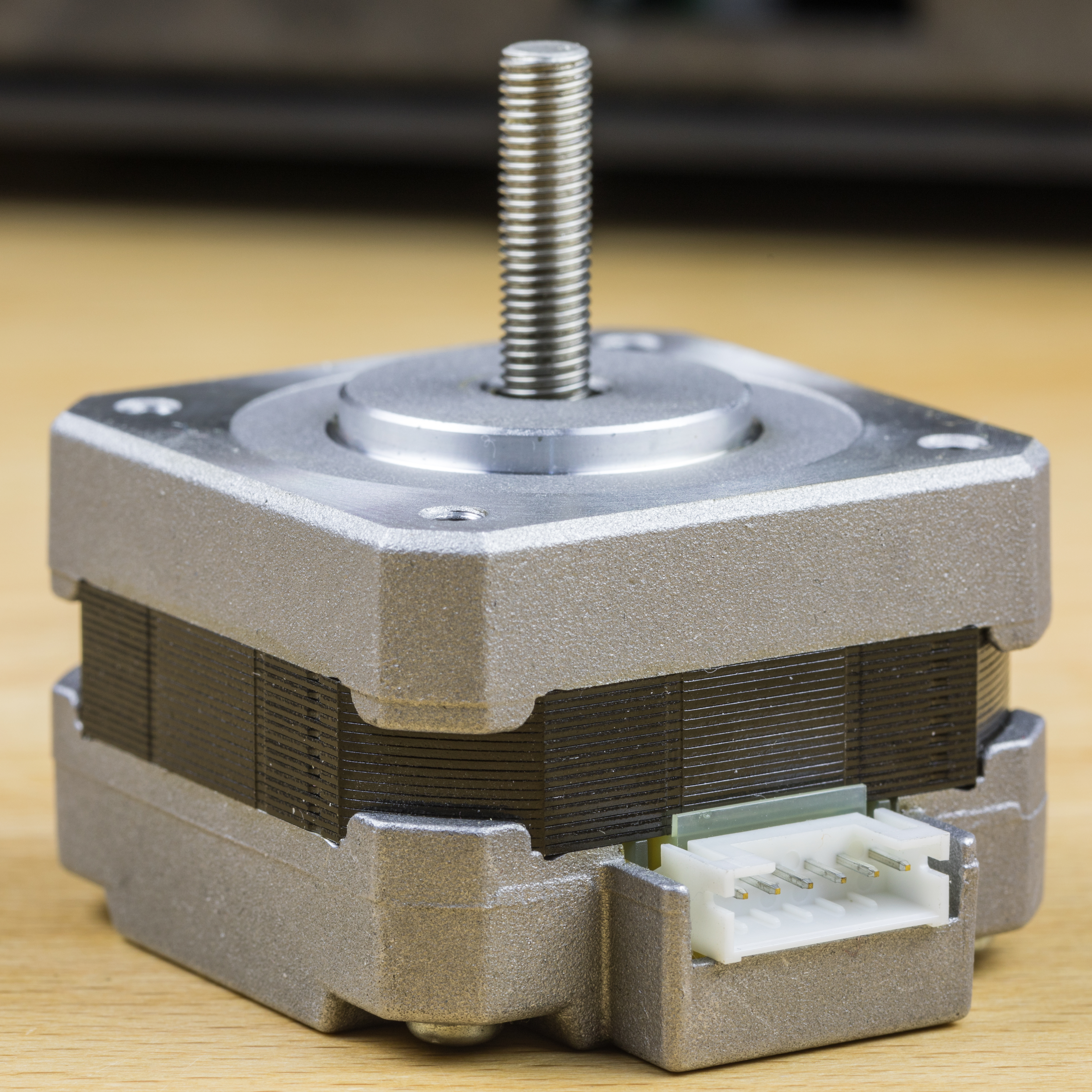 Xerox ColorQube 8570 - Shinano Kenshi 147-0171-00. Stepper motor